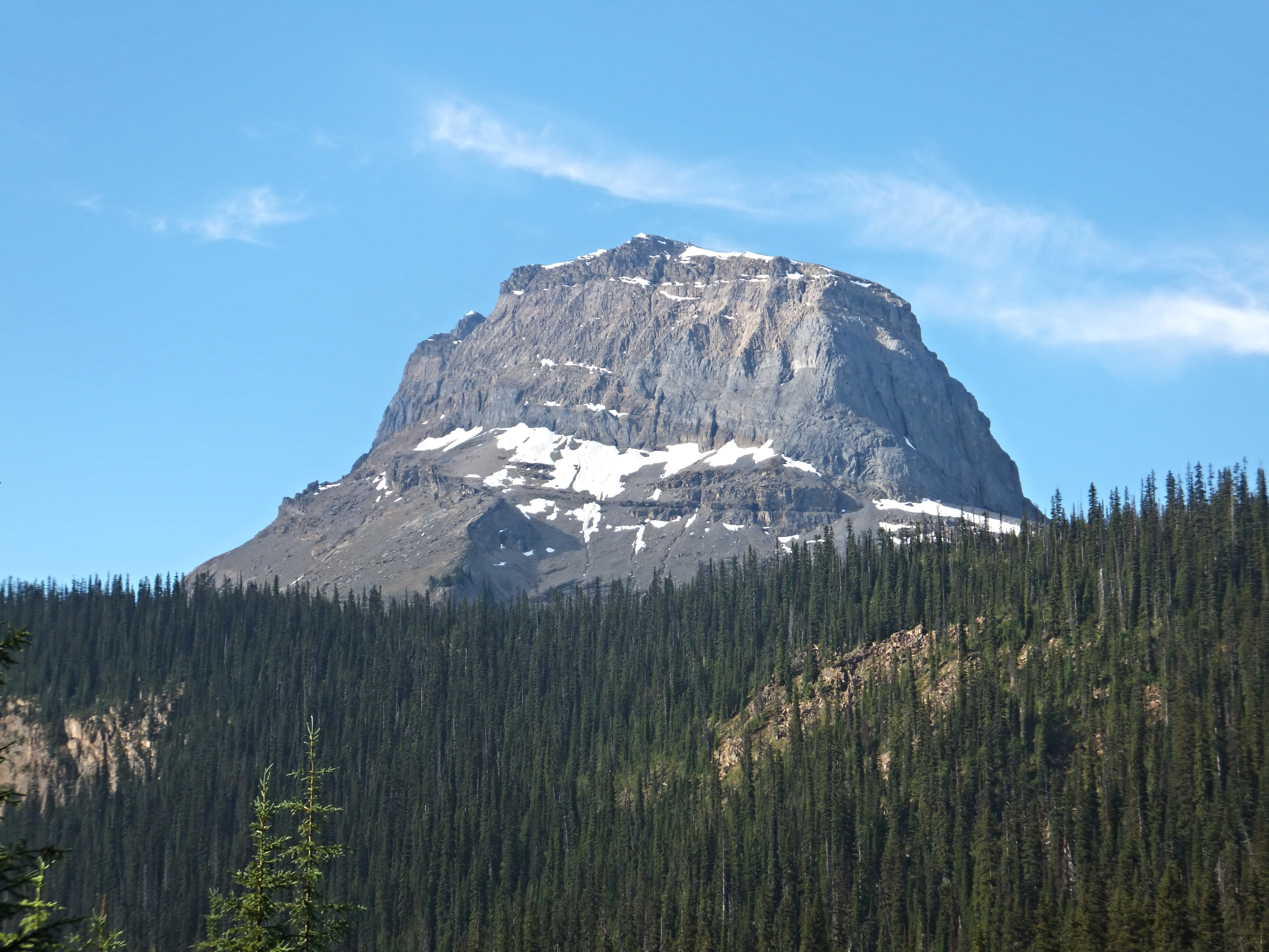 Yoho National Park, BC, Canada. North face.